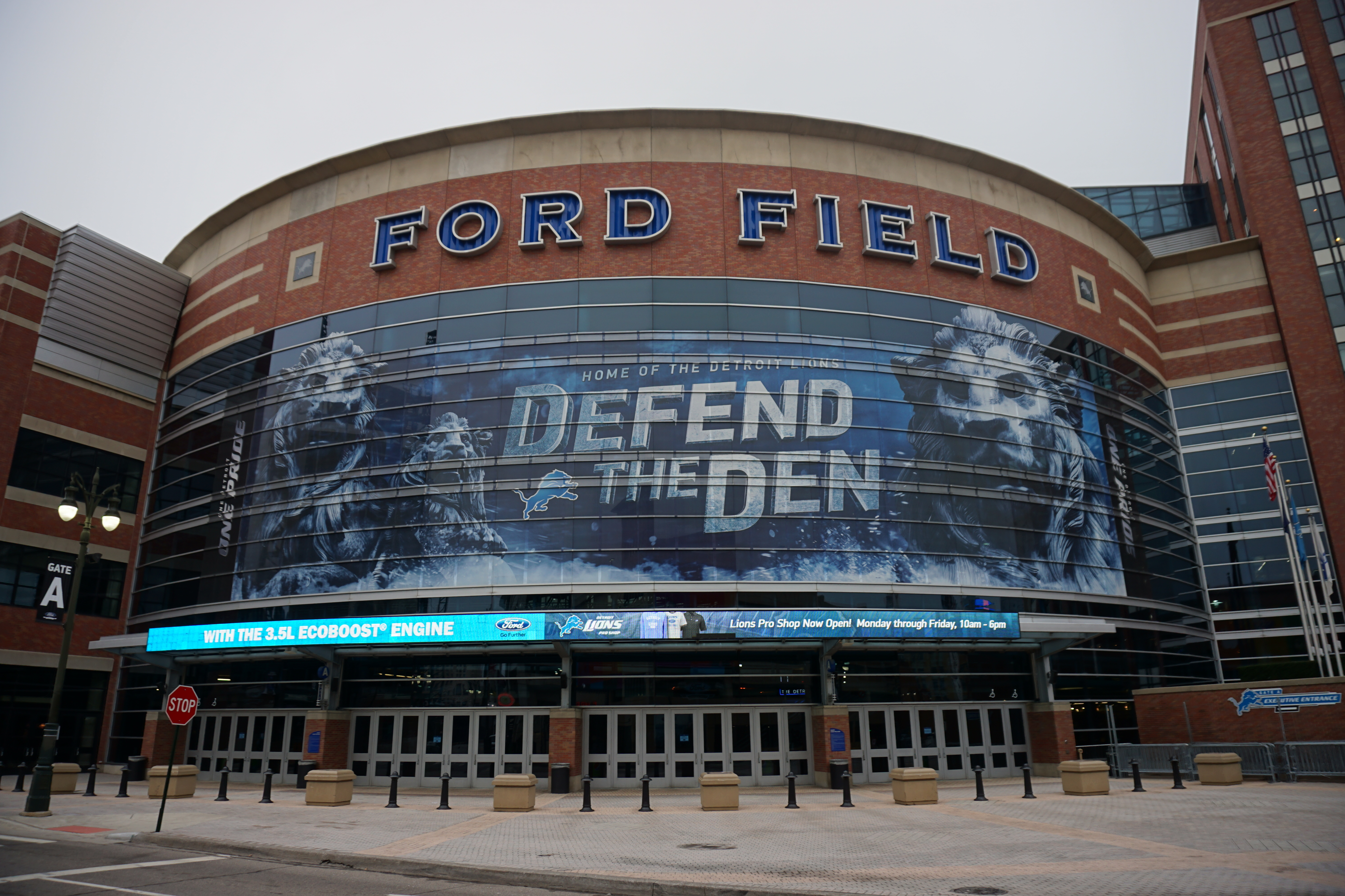 Ford Field in Detroit, Michigan (United States).